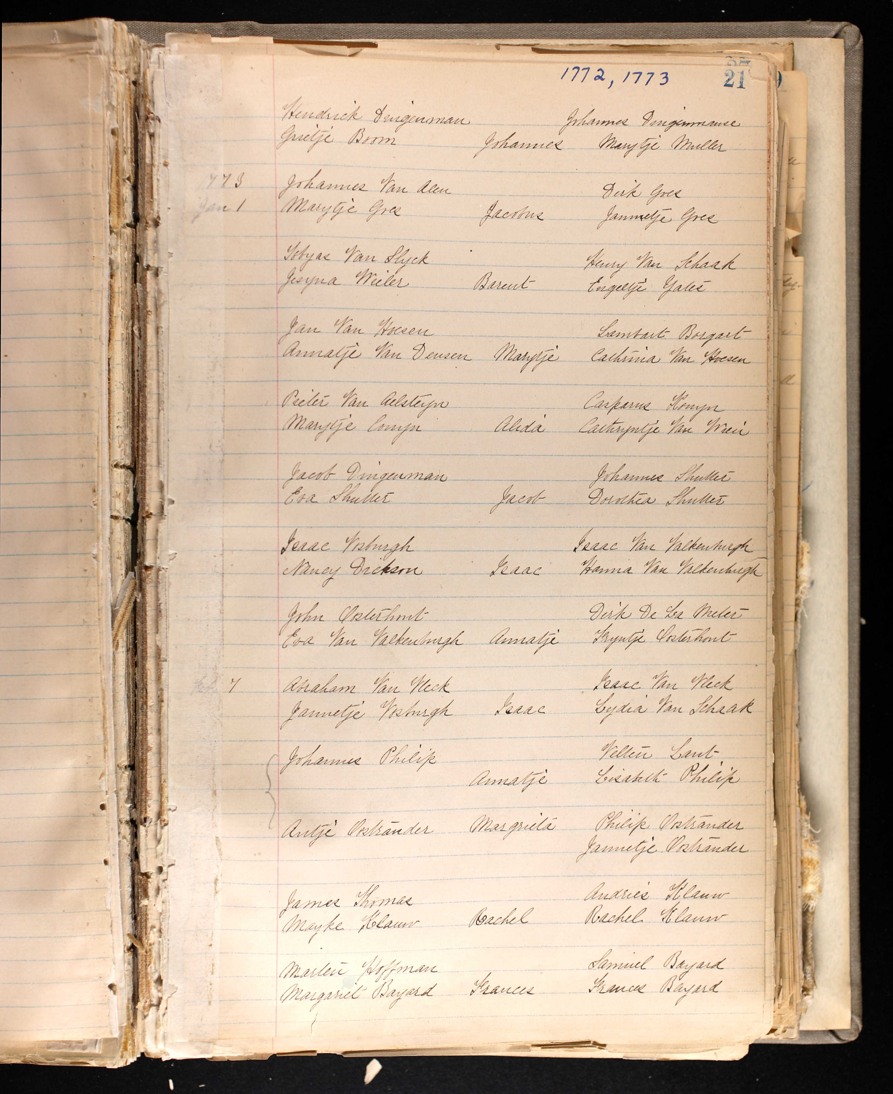 Baptism record, James I. Van Alen (Congressman from New York)